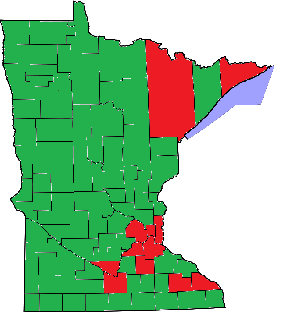 A county map of Minnesota displaying the results of the 2012 marriage amendment.